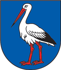 Coat of arms of Staicele